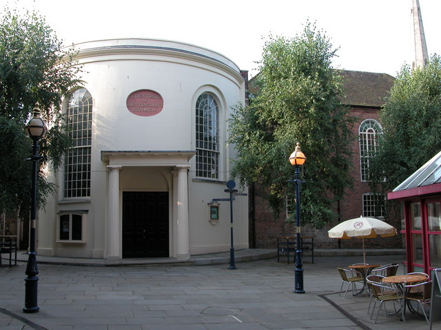 Huntingdon Hall, Bell Square, Crowngate, Worcester. Huntingdon Hall is a concert and entertainment venue. It was built in 1804 as a chapel of the Countess of Huntingdon's Connexion.